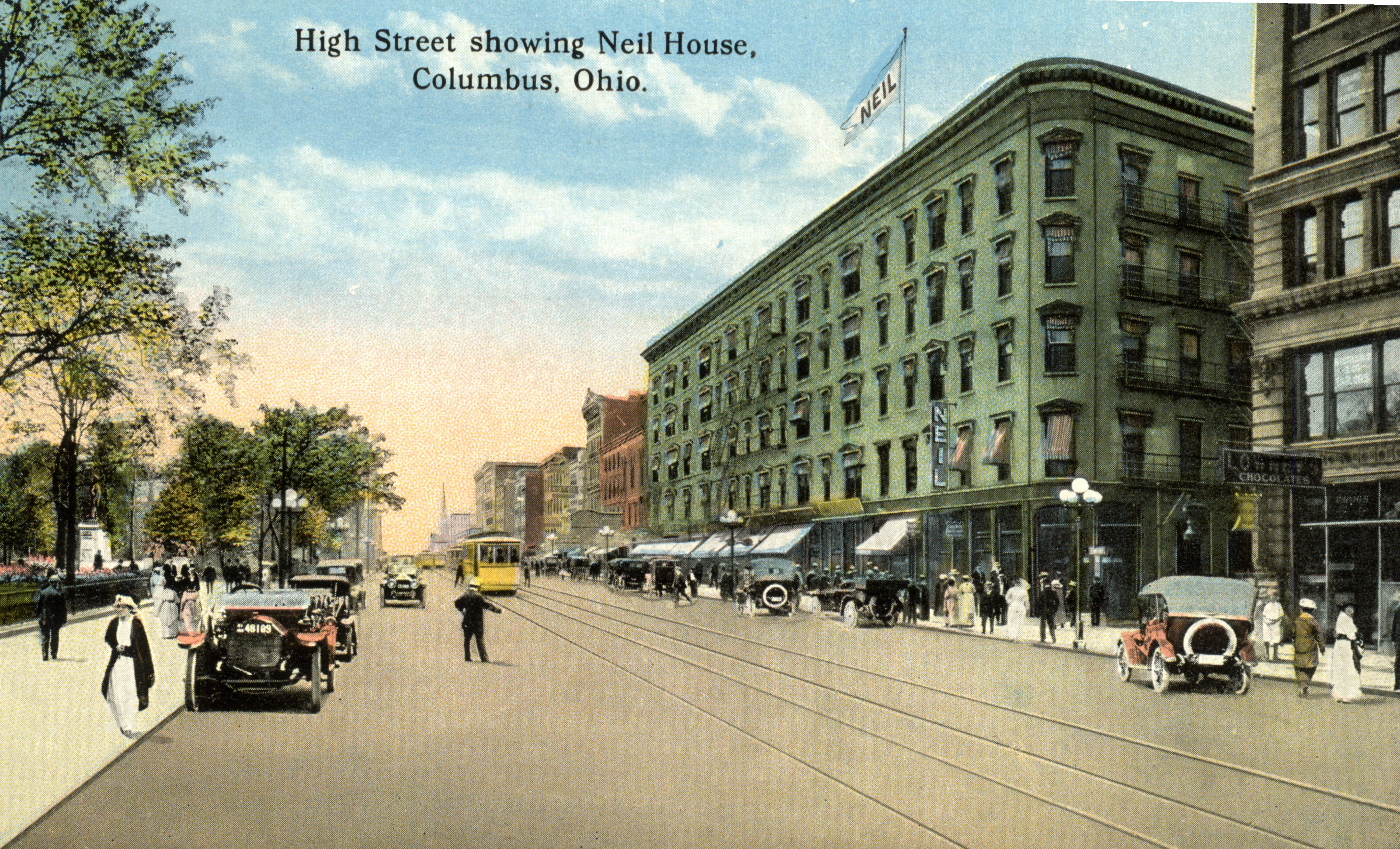 Persistent URL: Subject: Cities & towns; Commercial streets; Business districts; Ohio--Columbus; miami digital collections; bowden postcard collection